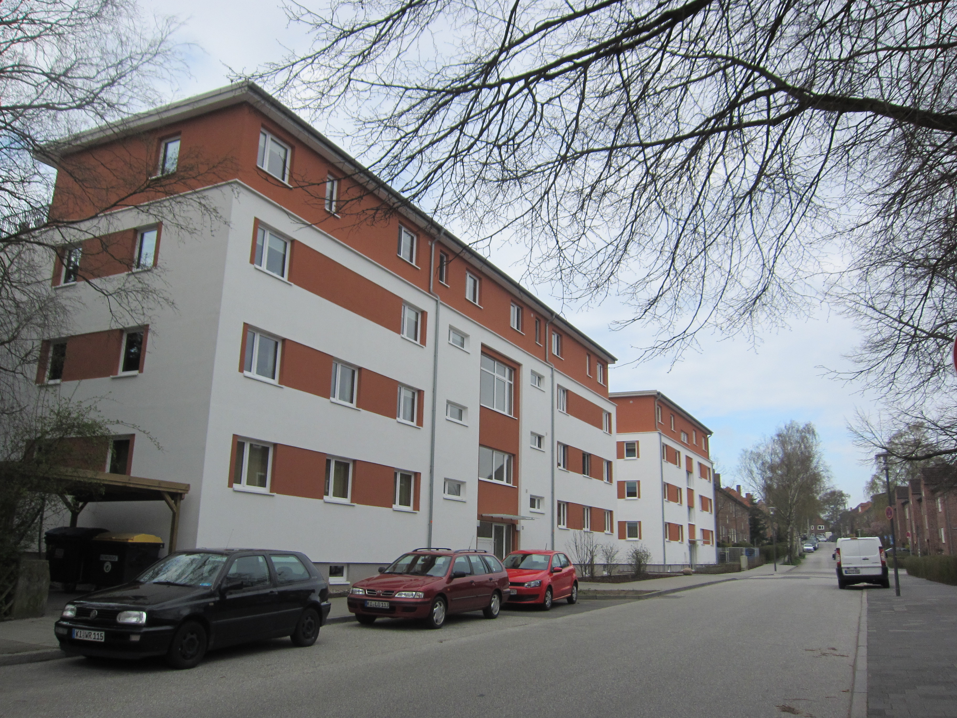 Houses in Kiel-Wik